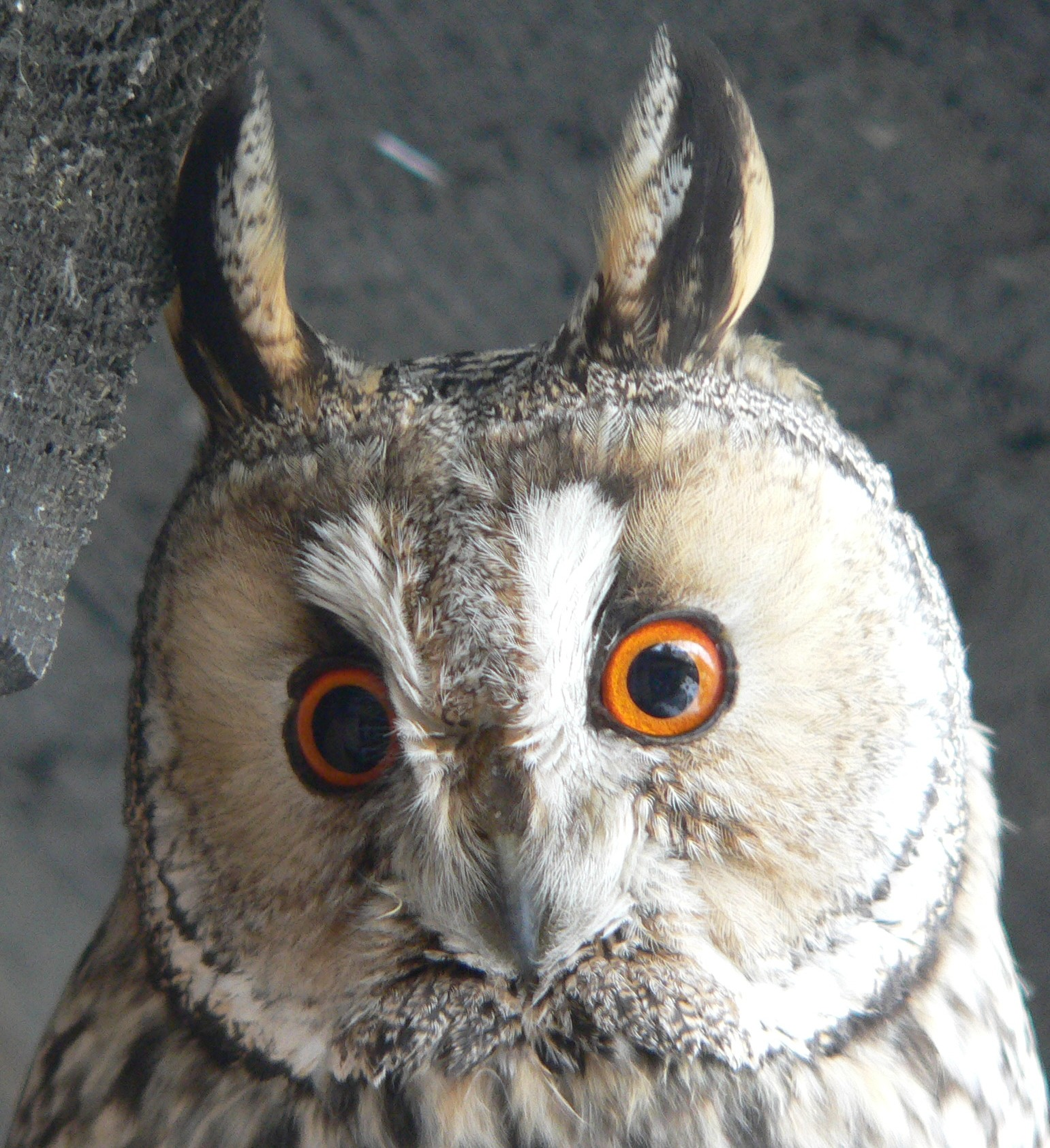 Asio otus, Kölner Zoo, Cologne (the image uses the wrong latin name)